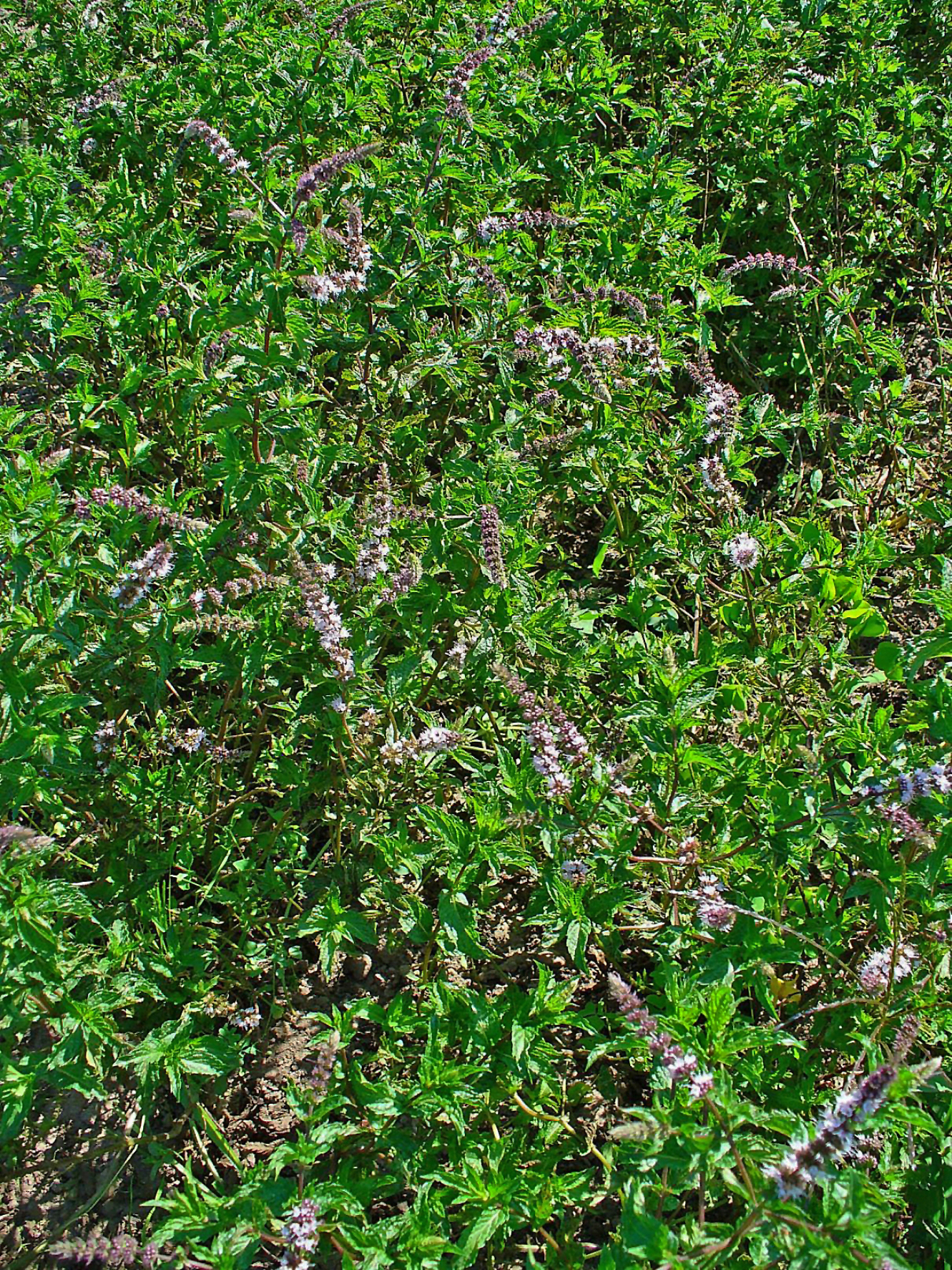 Mentha spicata var. crispa, Lamiaceae, Curly Leaved Mint, habitus.